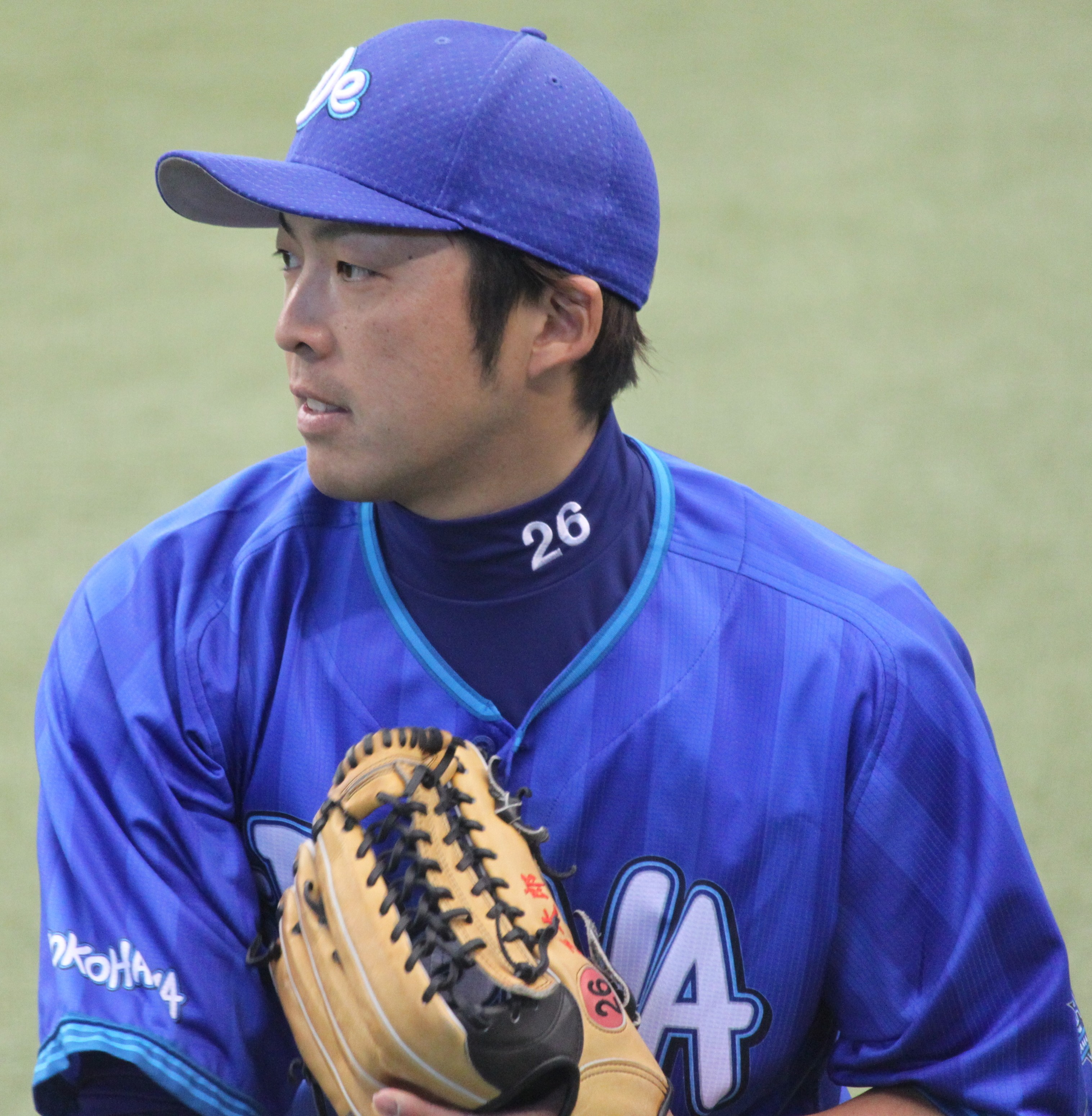 Shotaro Ide, outfielder of the Yokohama DeNA BayStars, at Seibu Dome.